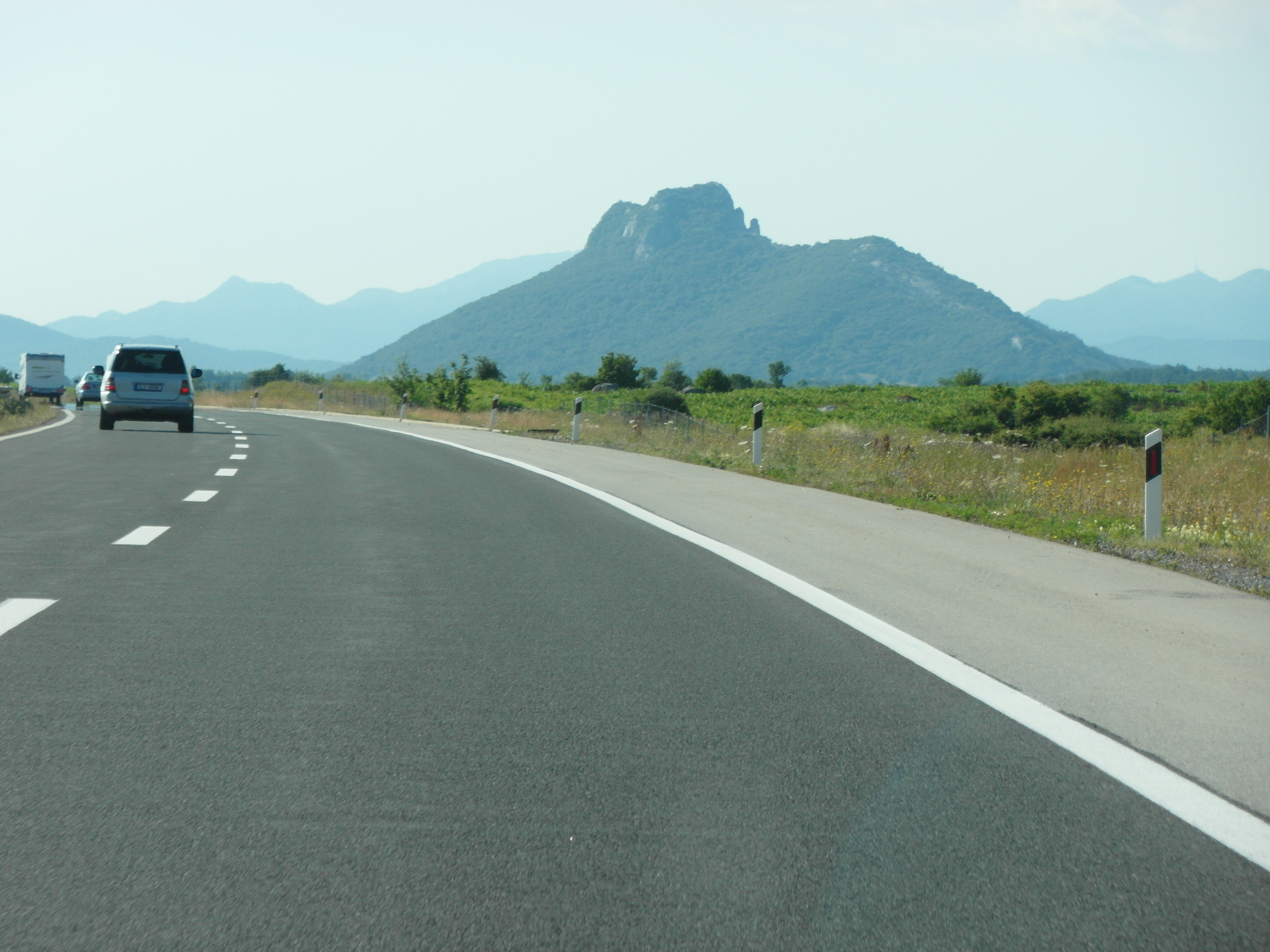 A1 near the Zir hill.